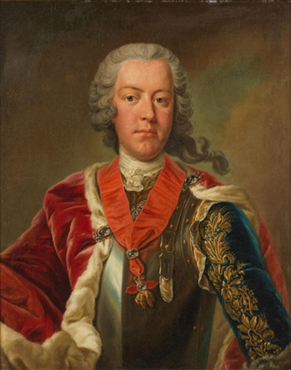 Portrait of Prince Charles Alexander of Lorraine (1712-1780)